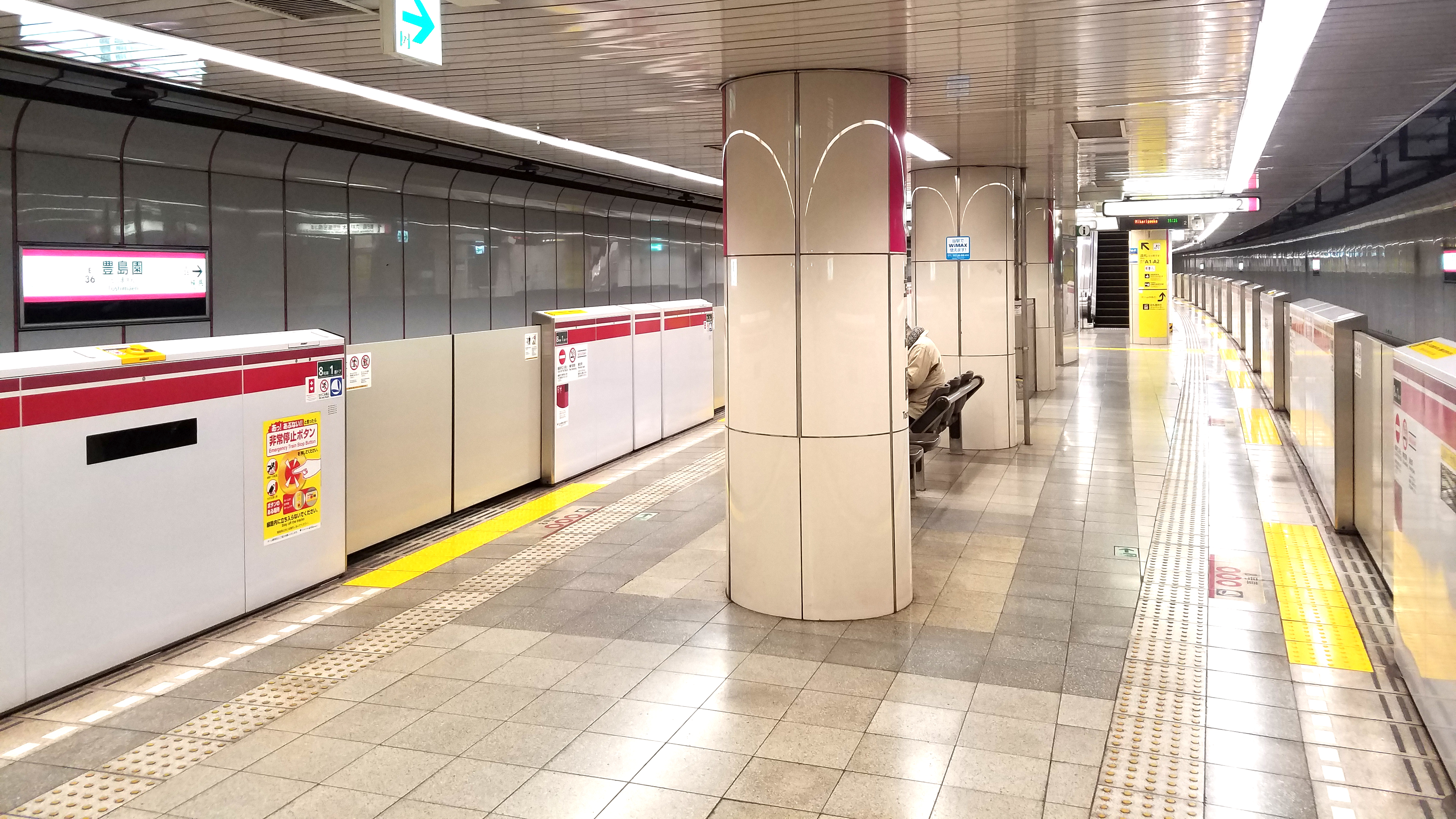 The platform at Toshimaen Station on the Toei Ōedo Line in Nerima city, Tokyo, Japan